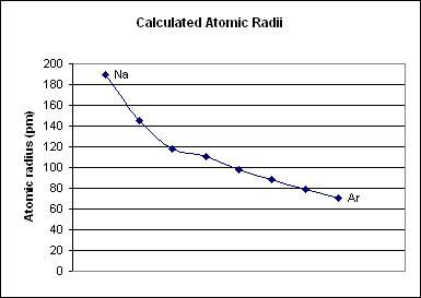 Graph of calculated atomic radii of period 3 elements.